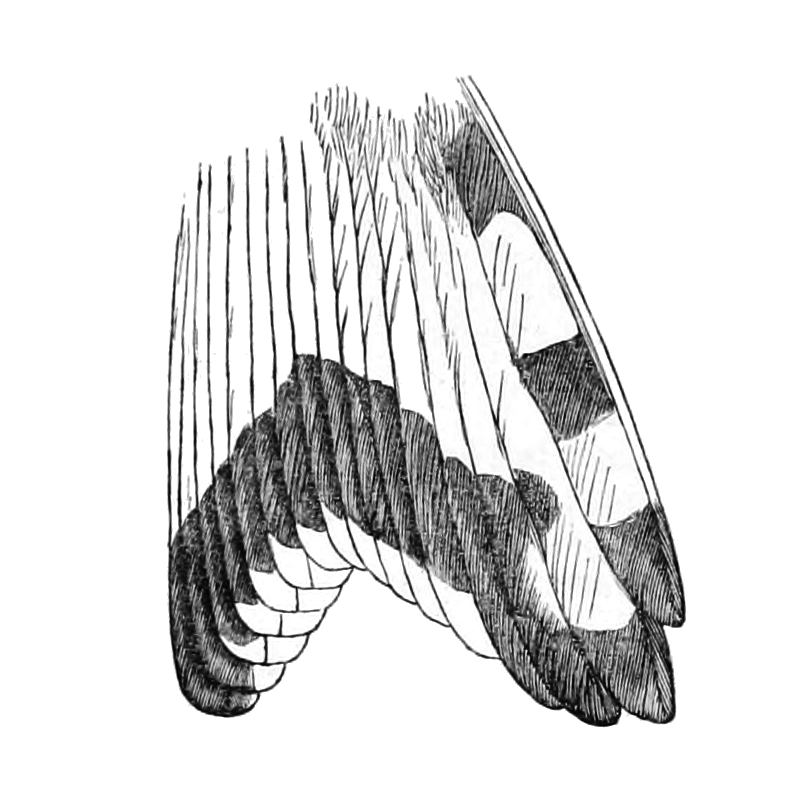 Campo Miner, underwing pattern